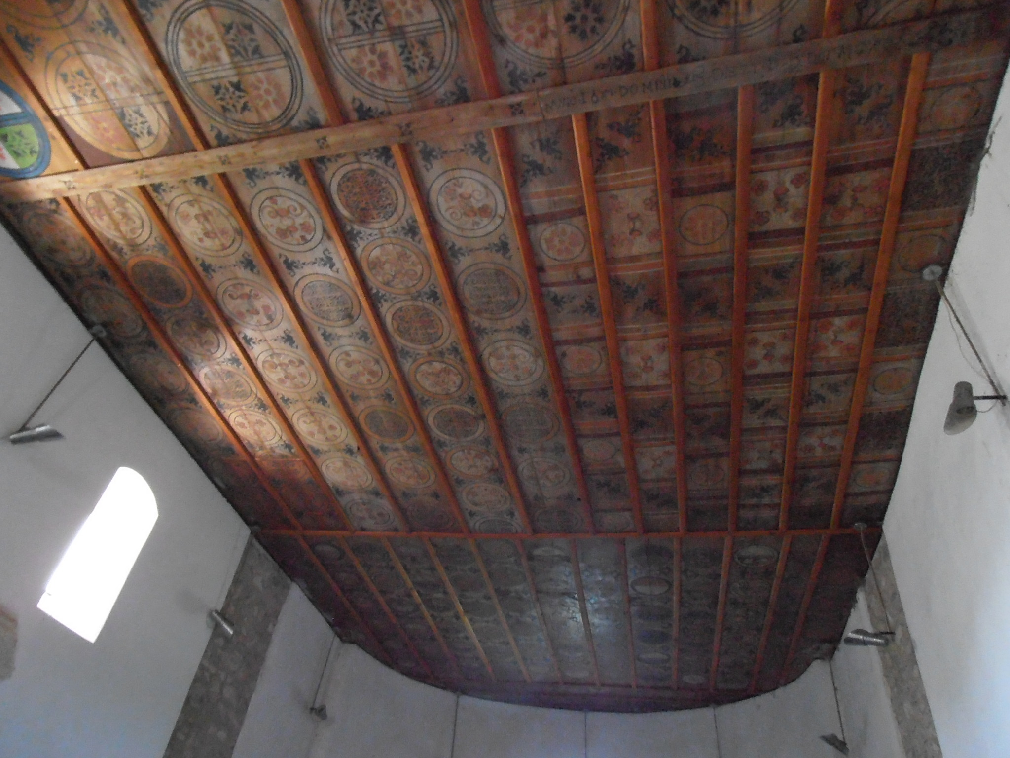 Ceiling of reformed church in Rakacaszend, Hungary A rakacaszendi református templom festett famennyezete